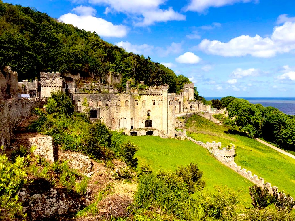 View over the east lawn and east front of Gwrych Castle in 2020